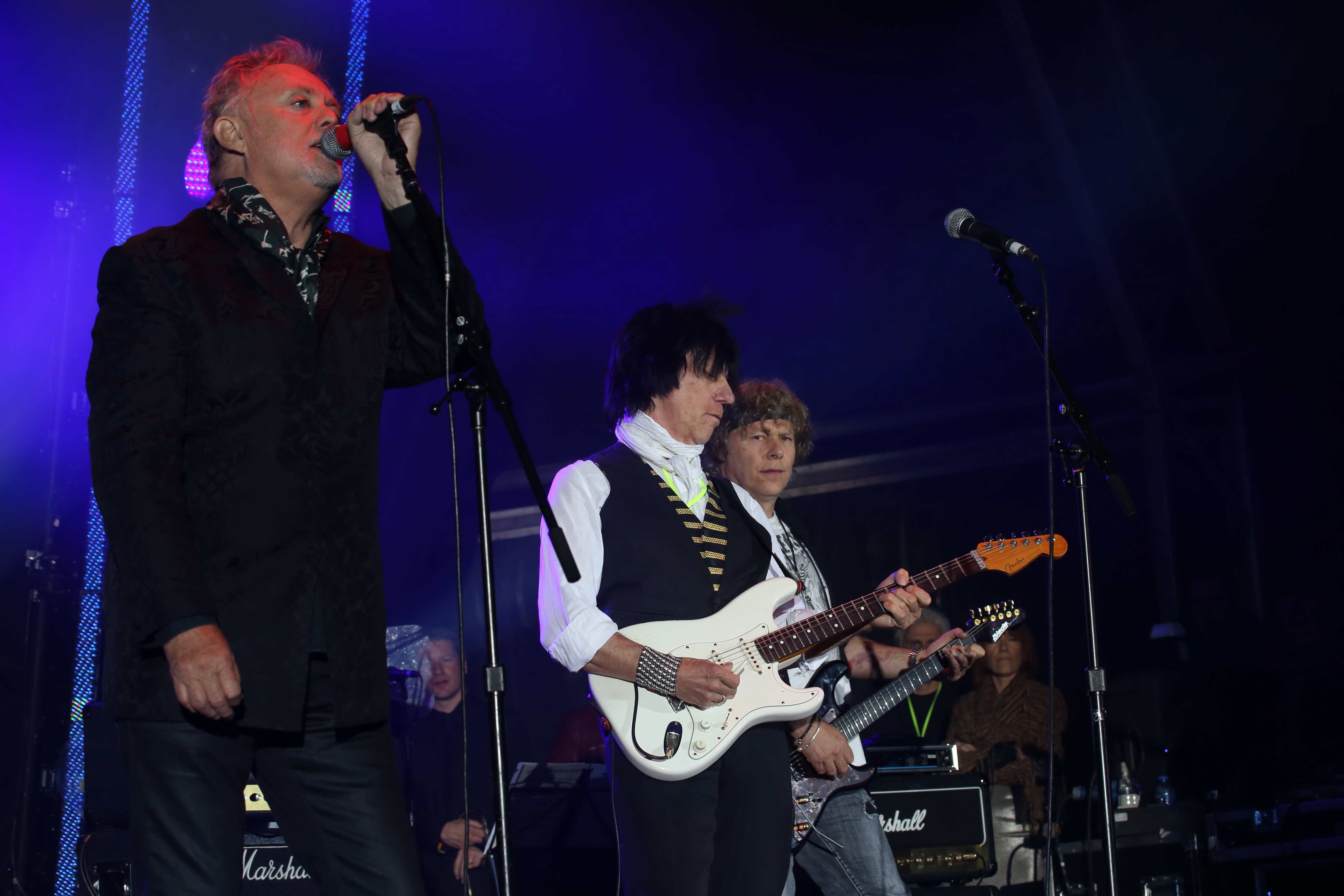 Roger Taylor, Jeff Beck, and Jamie Moses in concert.